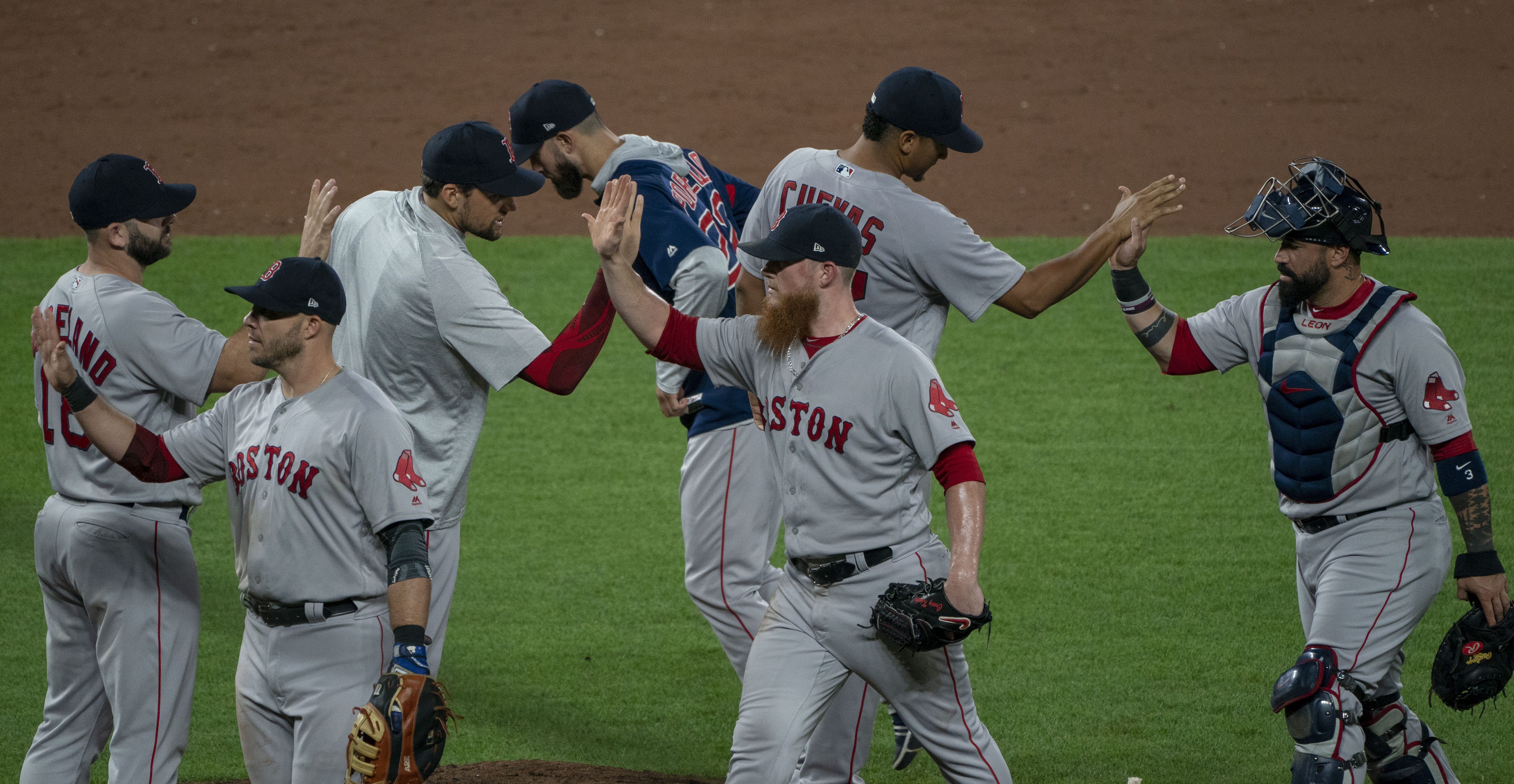 Boston Red Sox players including Mitch Moreland, Craig Kimbrel, William Cuevas and Sandy Leon congratulate each other after a win at Camden Yards in Baltimore in 2018